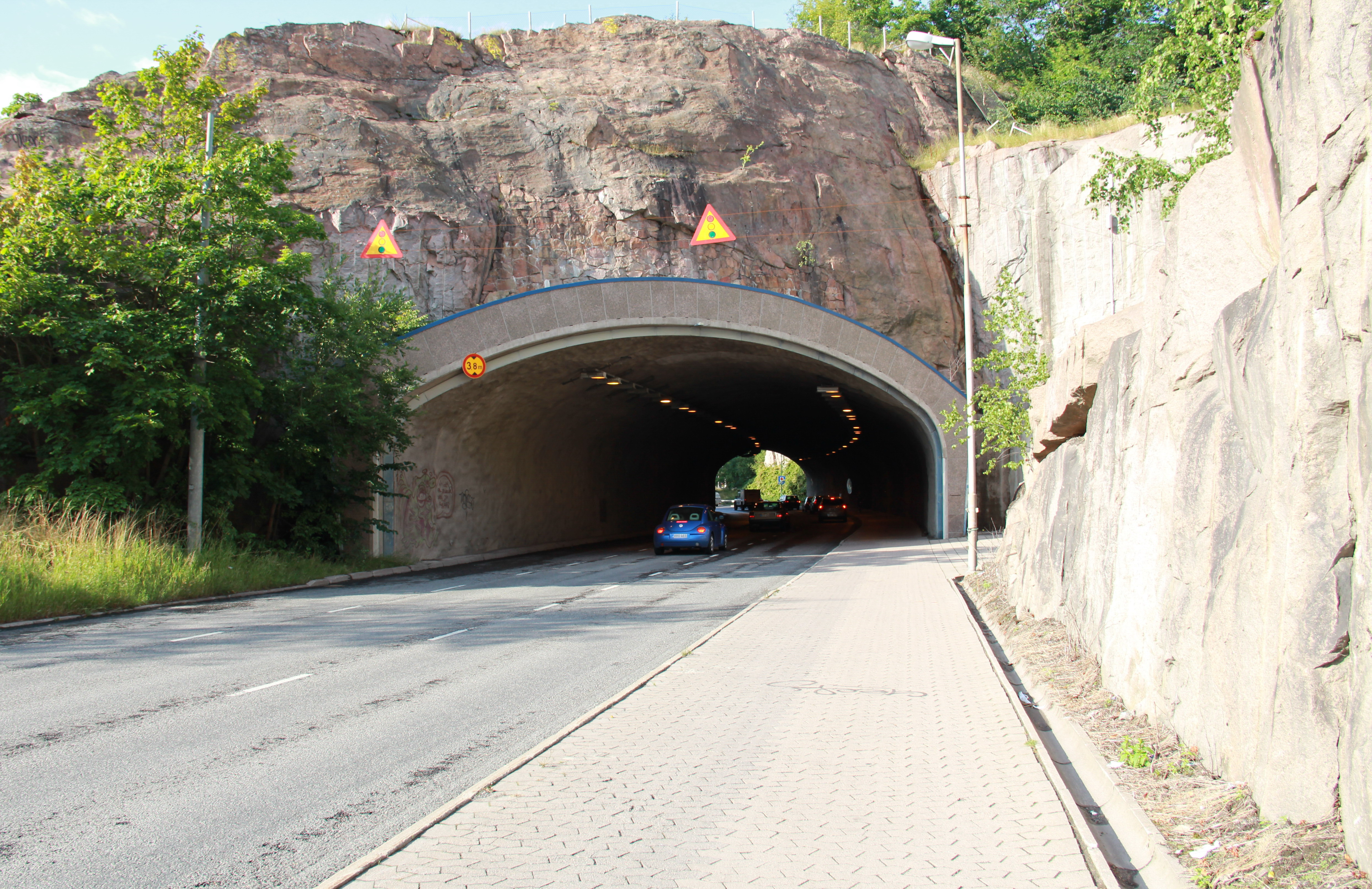 Myllytunneli, Turku, Finland. A road tunnel.